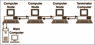 नोड - Node